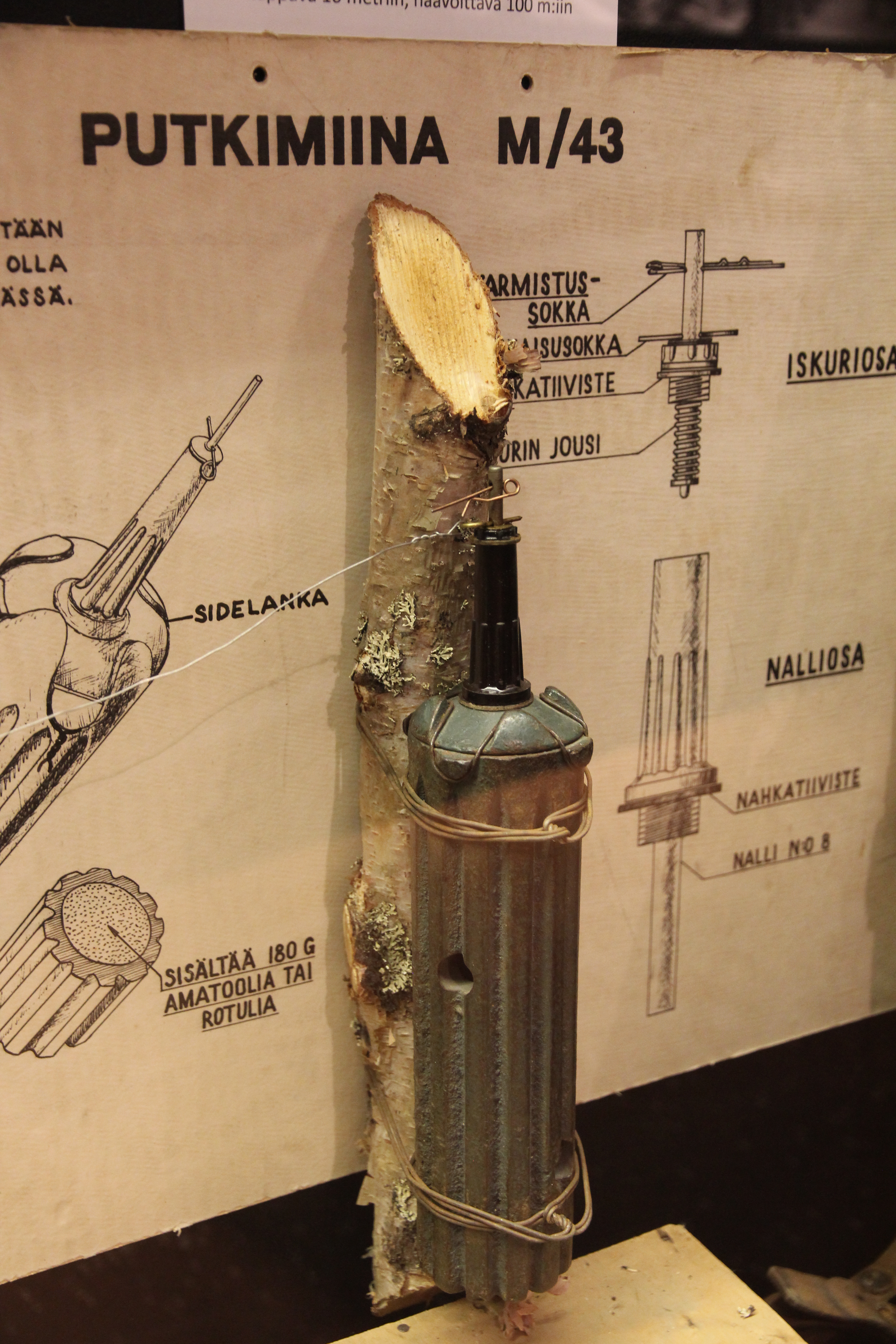 Pipe mine m/43 in RUK-museum in Hamina.